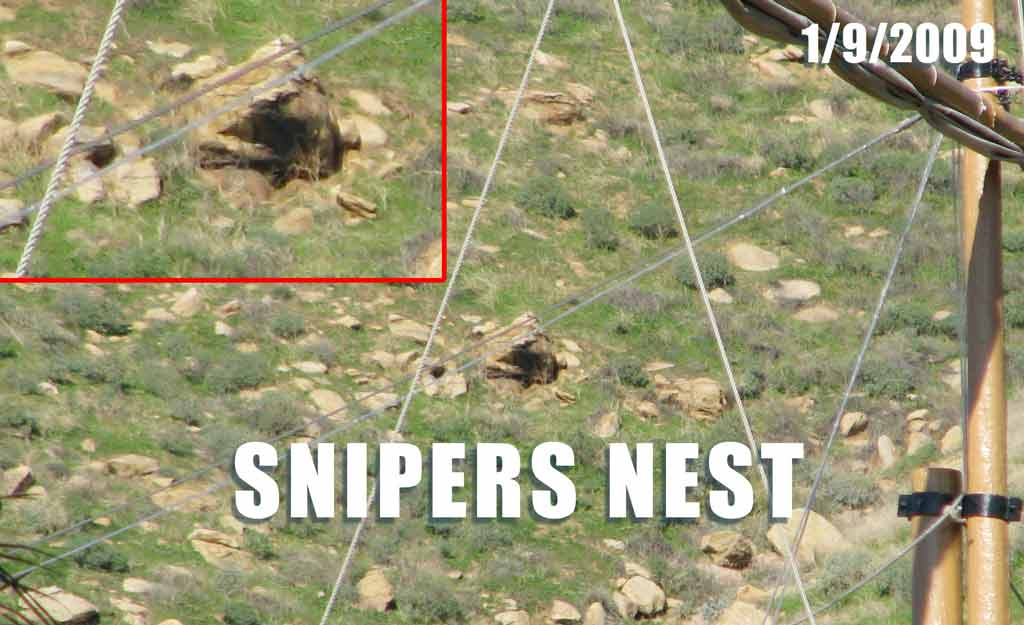 Gilman Hot Springs Road - A snipers nest/observation hole facing the entrance to Golden Era Productions